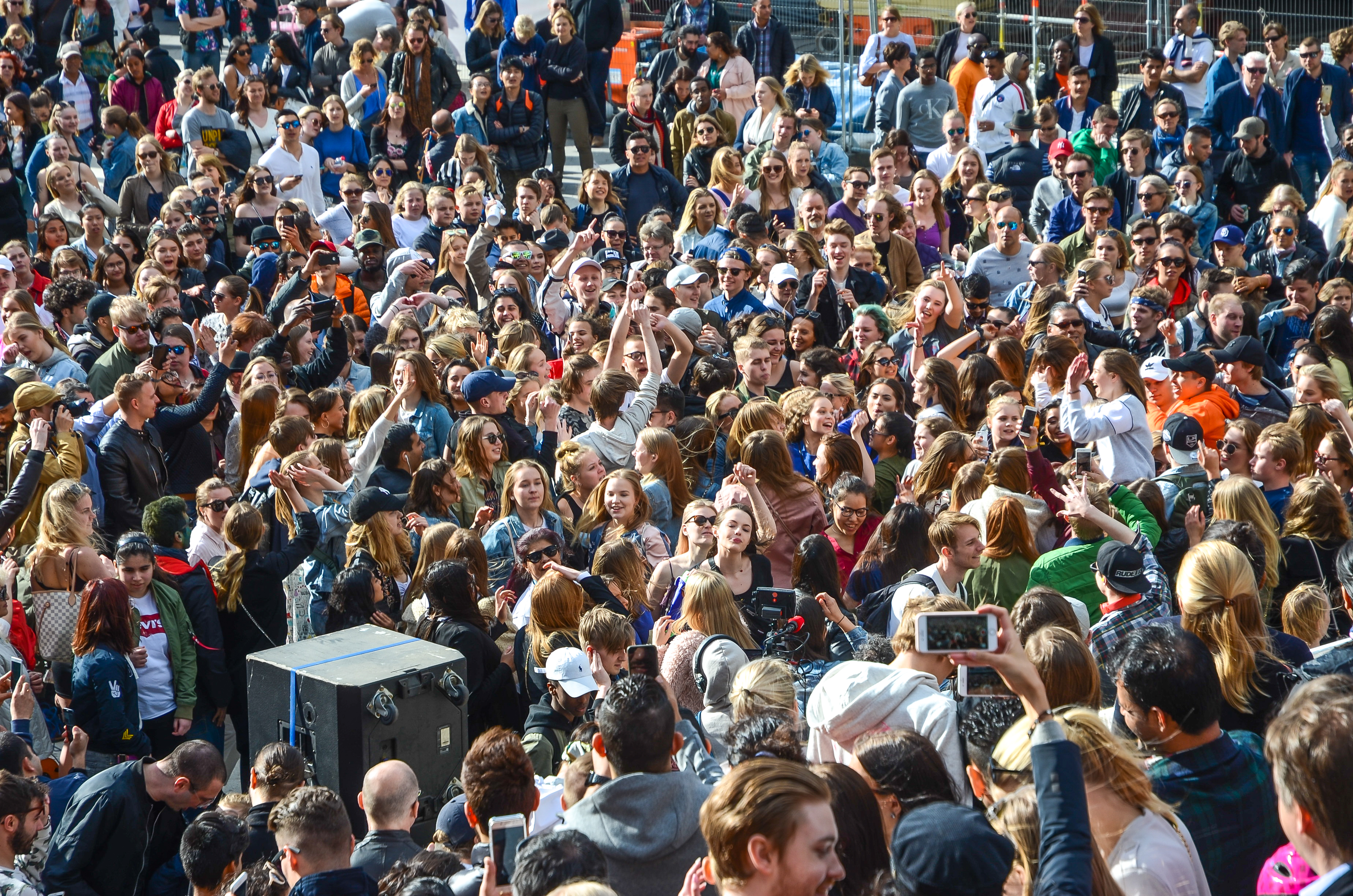 Memorial event with music and spontaneous dance at Sergels torg in Stockholm, Sweden after the death of Avicii.